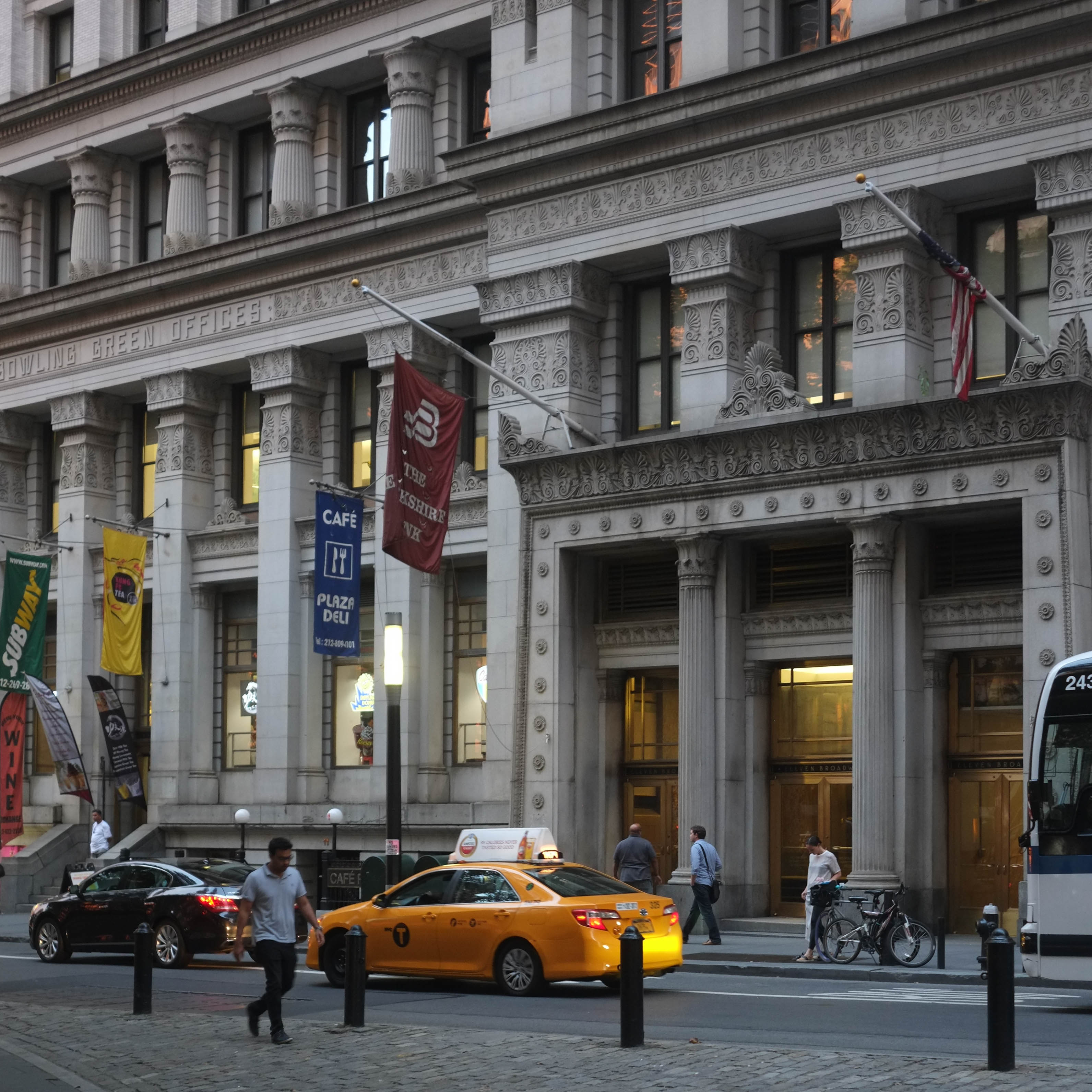 Downtown Manhattan